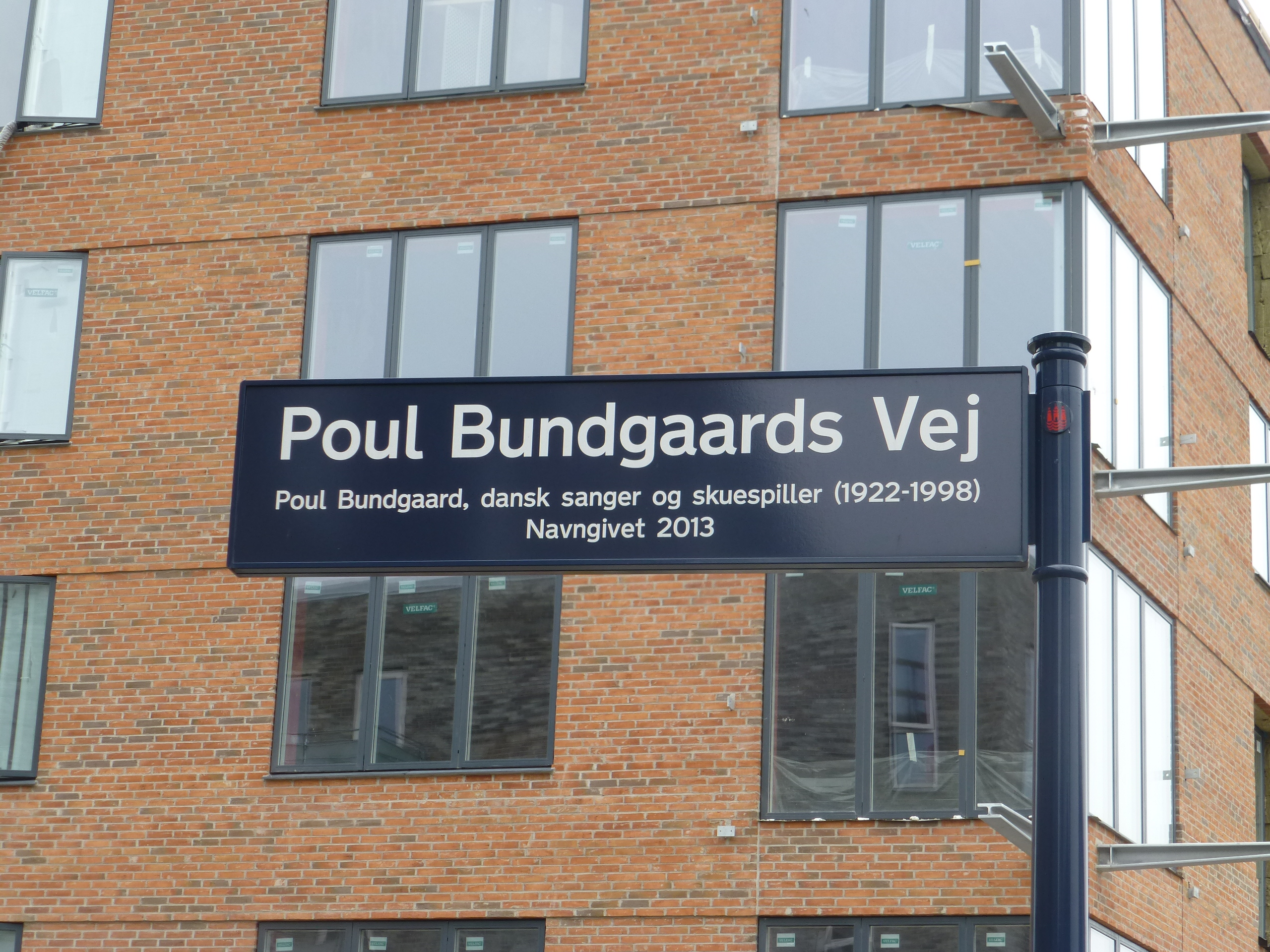 Street sign for Poul Bundgaards Vej in Valby in Copenhagen. The sign tell that the street was named in 2013 after the Danish actor and singer Poul Bundgaard (1922-1998).